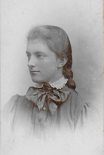 A photograph of Kitty Ogilvy Hozier by Berkhamsted photography studio T. Banning dated 1899 written in ink on the reverse of the card mount